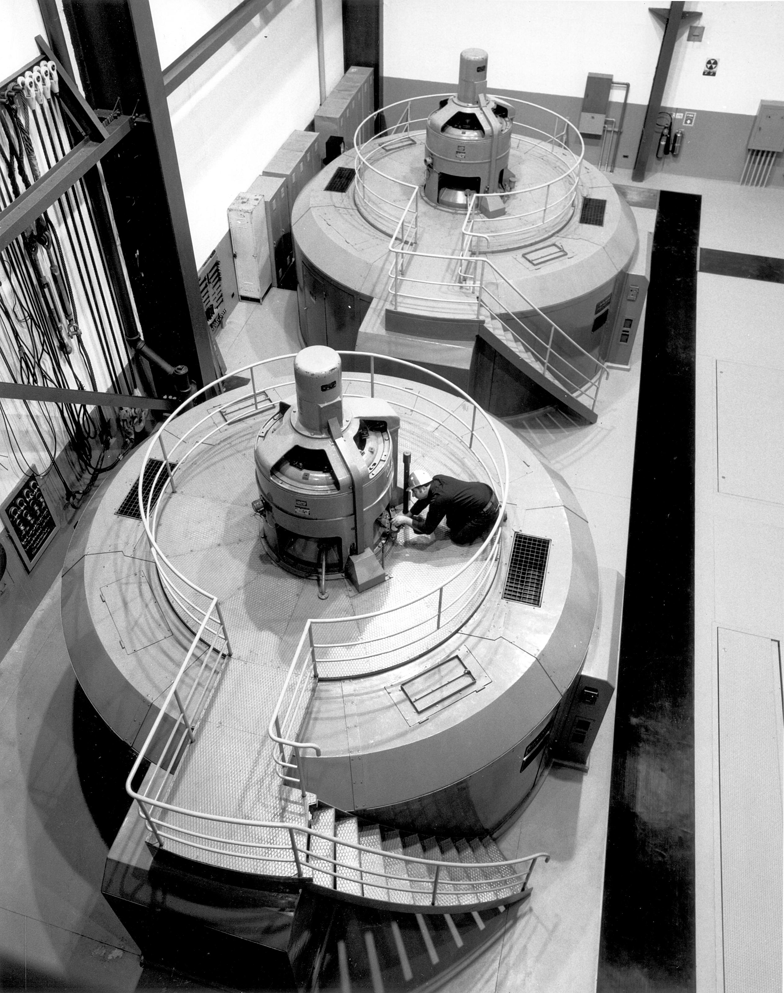 Main generator deck inside the Eklutna power plant.